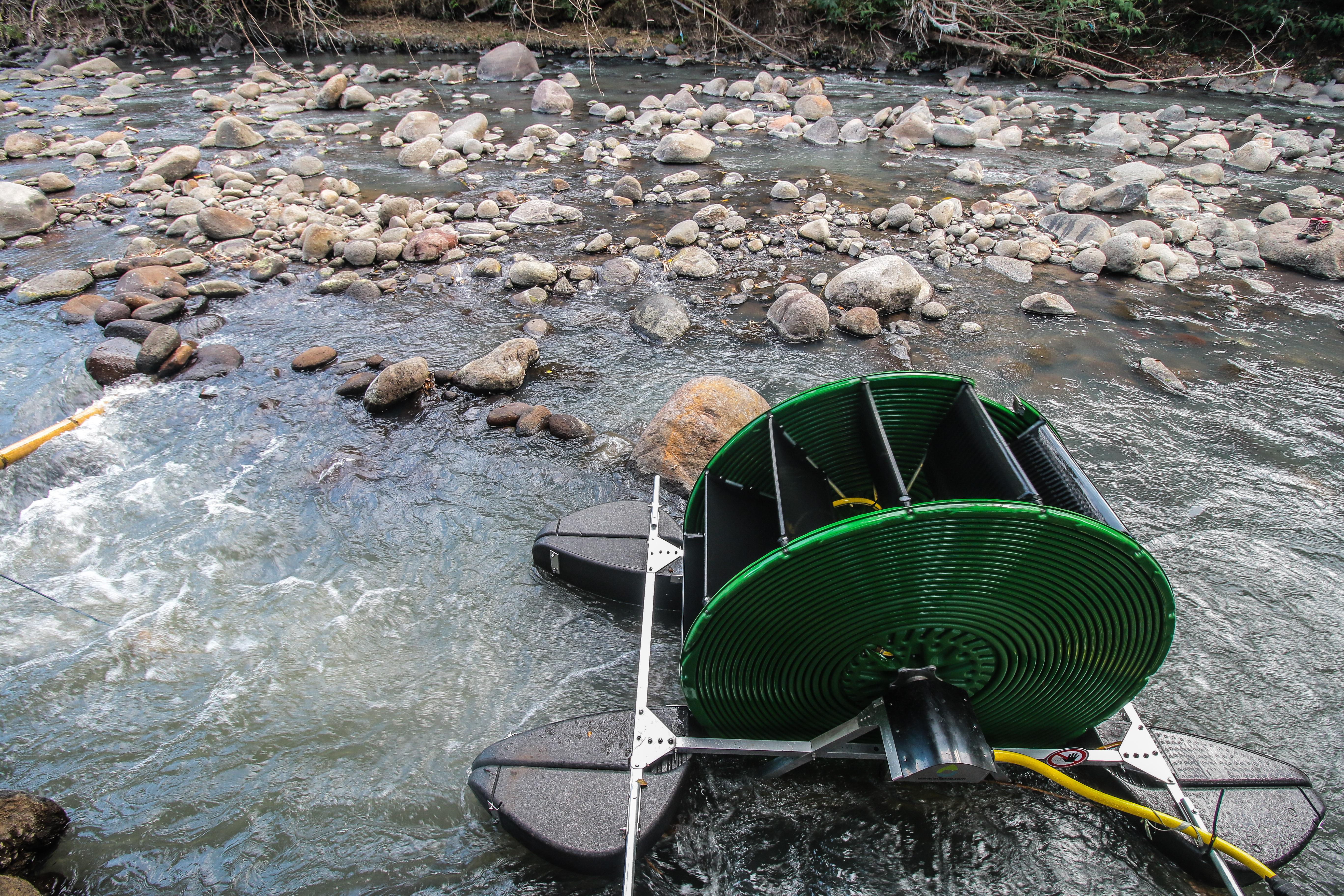 A Barsha pump is a pump that does not use fossil energy, environmentally friendly, placed in a river to lift water to a higher plateau. The pump Barsha utilizes the water energy itself to lift water from a river or a lower surface to a higher surface. The pump will continue to spin all the time as long as there is river water flow. Barsha power pumps are able to pump water up to 80 thousand liters every day and can raise water vertically up to 20 meters with a distance of 2 km from Barsha pump location. In Indonesia, the first time Barsha pumps were installed on Sumba Island precisely in the East Sumba District, NTT.